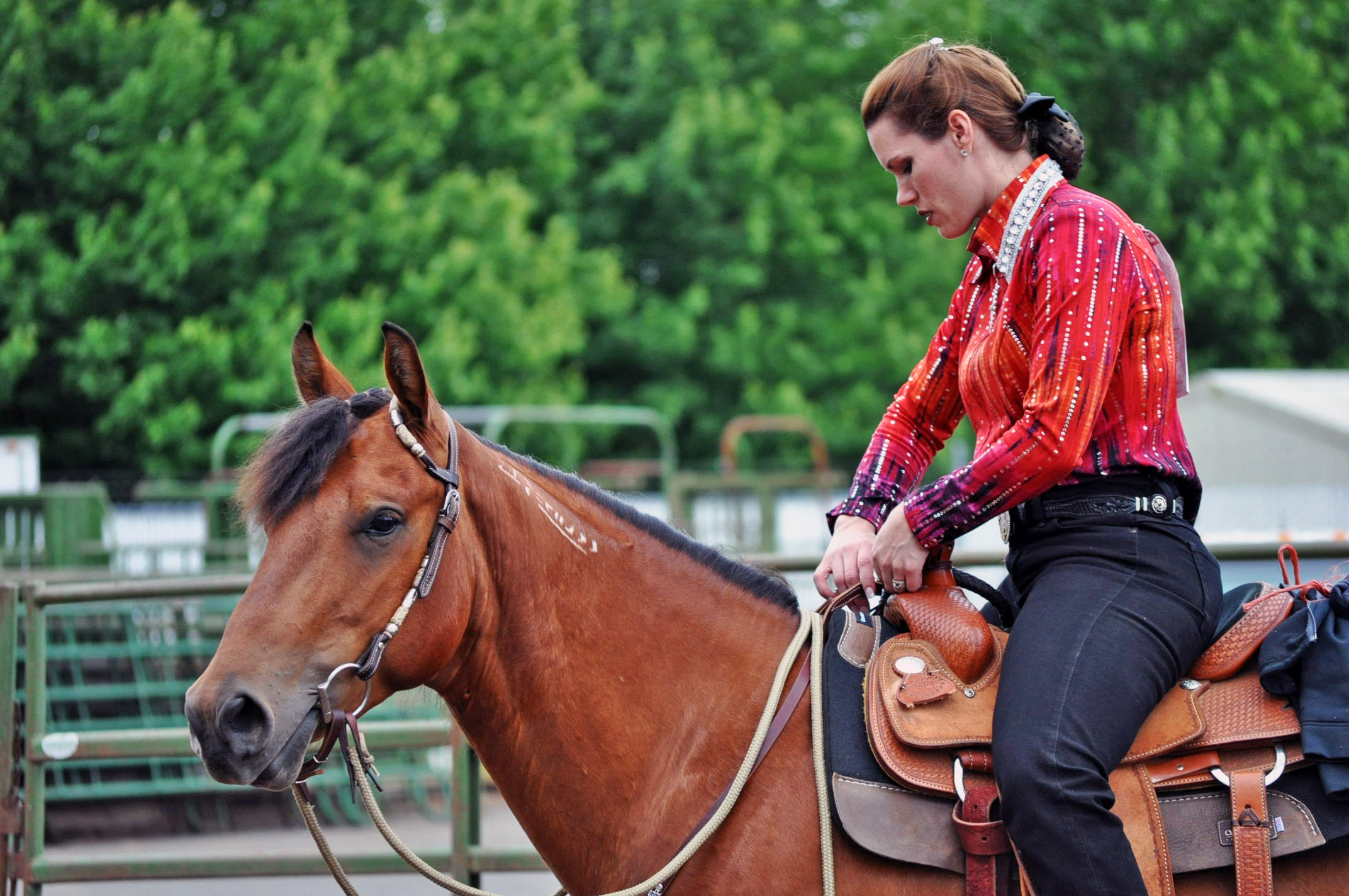 Oregon’s Extreme Mustang Makeover was held in Albany, Oregon, June 29-July 1, 2012. Photo by Tara Martinak, Burns District, Bureau of Land Management